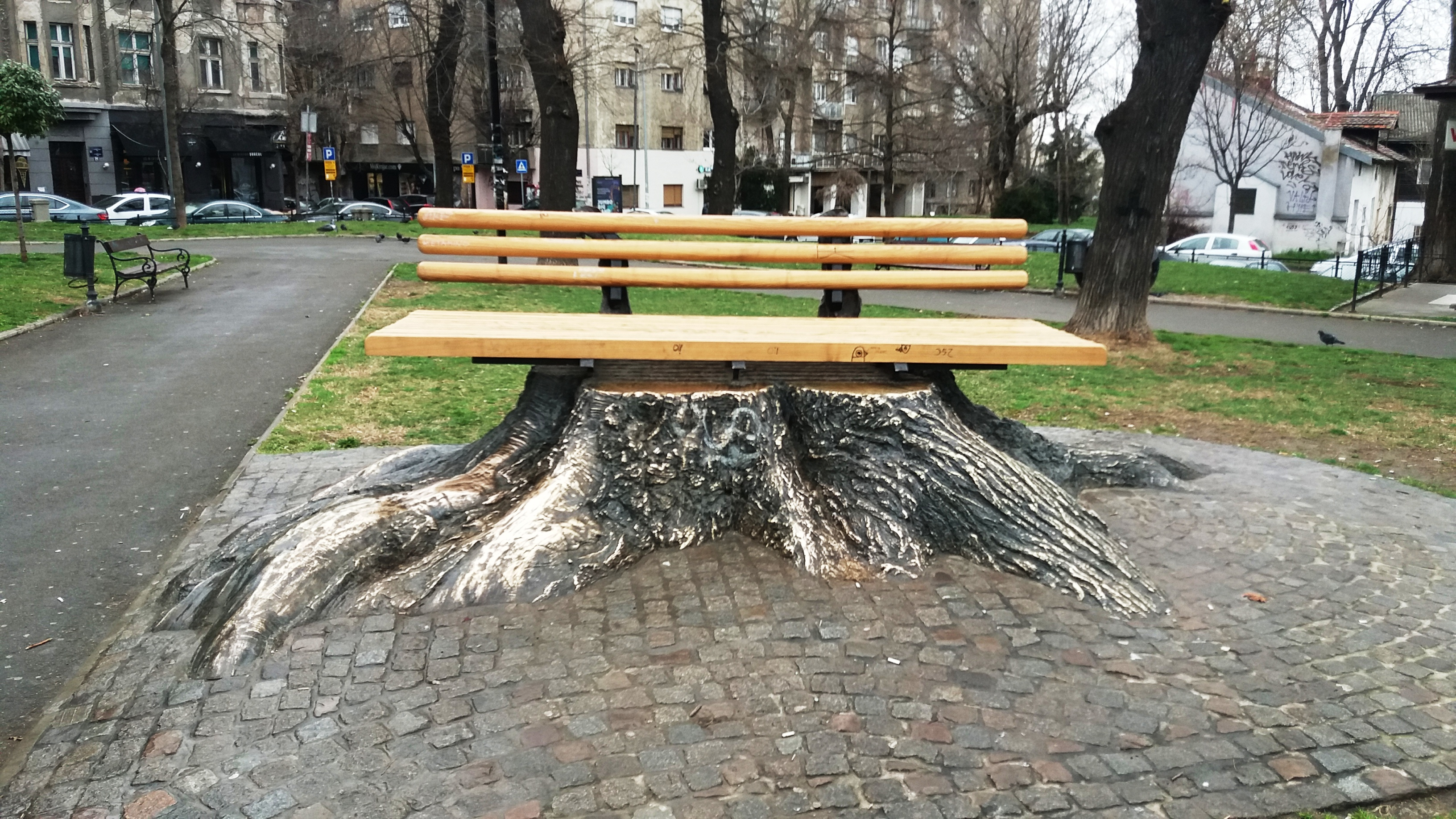 Monument Bench sophora 1, Academic park in Belgrade